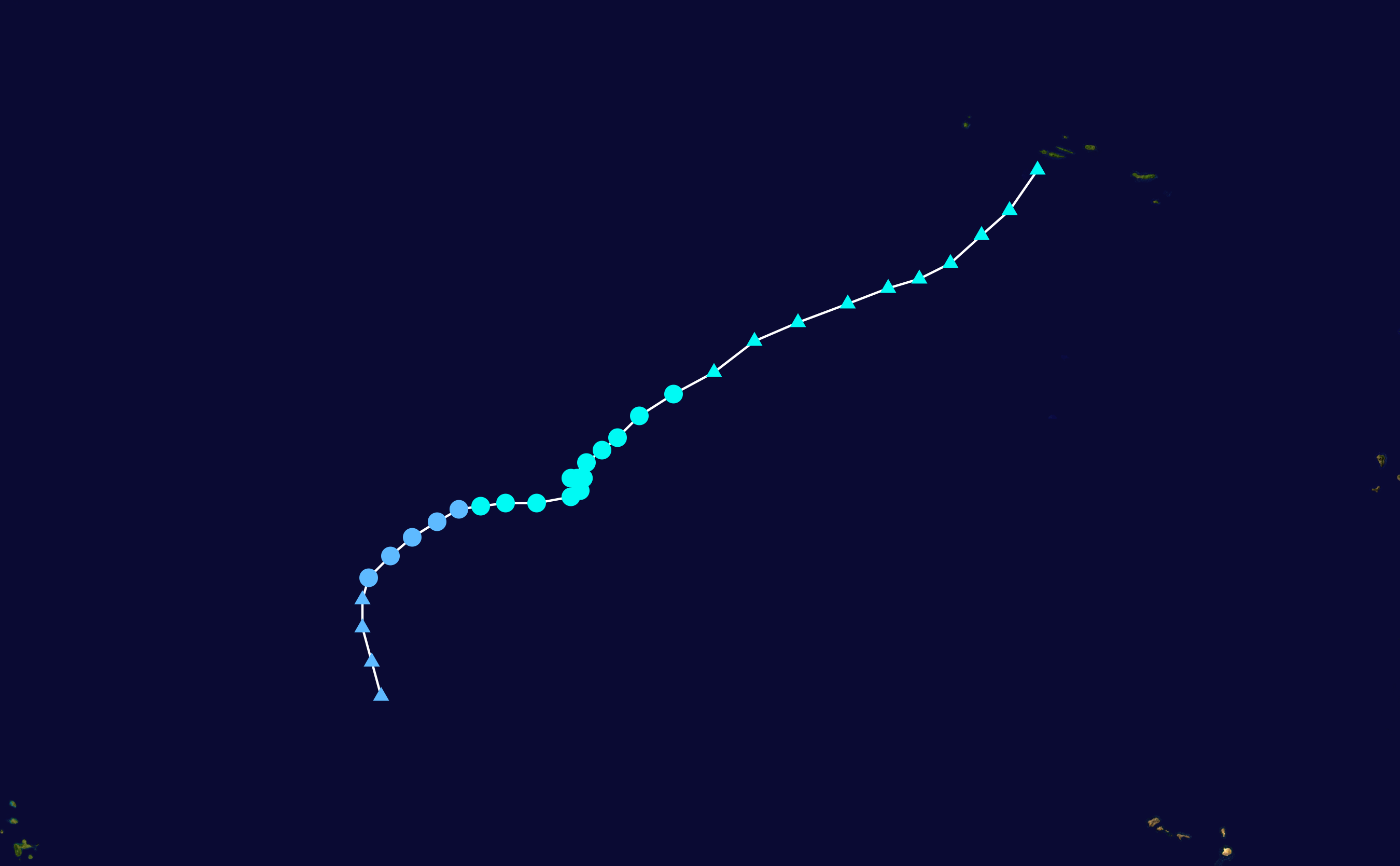 Track map of Tropical Storm Jerry of the 2013 Atlantic hurricane season. The points show the location of the storm at 6-hour intervals. The colour represents the storm's maximum sustained wind speeds as classified in the Saffir–Simpson scale (see below), and the shape of the data points represent the nature of the storm, according to the legend below. Saffir–Simpson scale Tropical depression≤38 mph≤62 km/h Category 3111–129 mph178–208 km/h Tropical storm39–73 mph63–118 km/h Category 4130–156 mph209–251 km/h Category 174–95 mph119–153 km/h Category 5≥157 mph≥252 km/h Category 296–110 mph154–177 km/h Unknown Storm type Tropical cyclone Subtropical cyclone Extratropical cyclone / Remnant low / Tropical disturbance / Monsoon depression